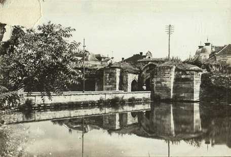 Bulgaria